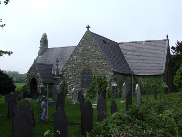 St Cawrdaf Church in Llangoed. This church of St Cawrdaf is to the north of Llangoed, and service times are posted in the porch